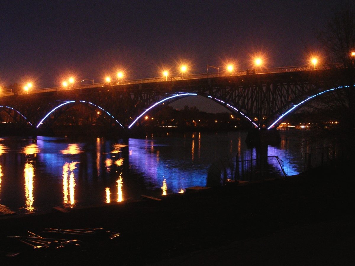 The Strawberry Mansion Bridge over the Schuylkill River at night.